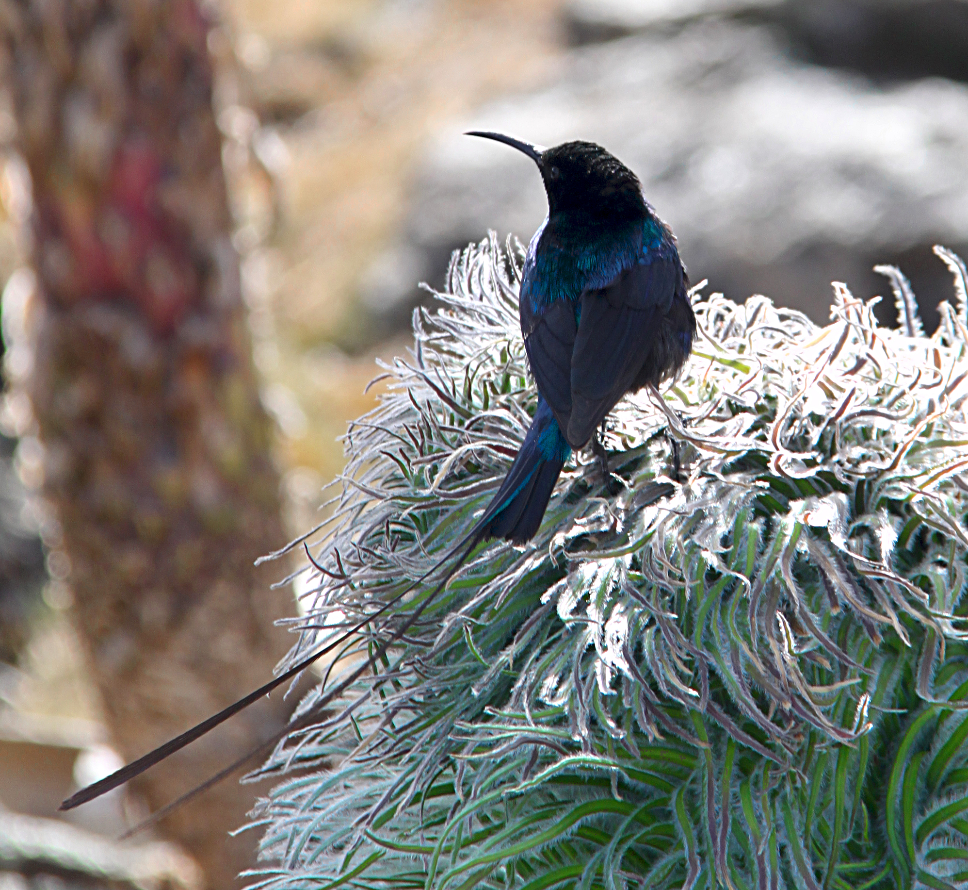 male scarlet-tufted malachite sunbird, Nectarinia johnstoni, sitting on the inflorescence of Lobelia telekii, photographed at Hall Tarns, Chogoria route, Mount Kenya, at 4300 m altitude